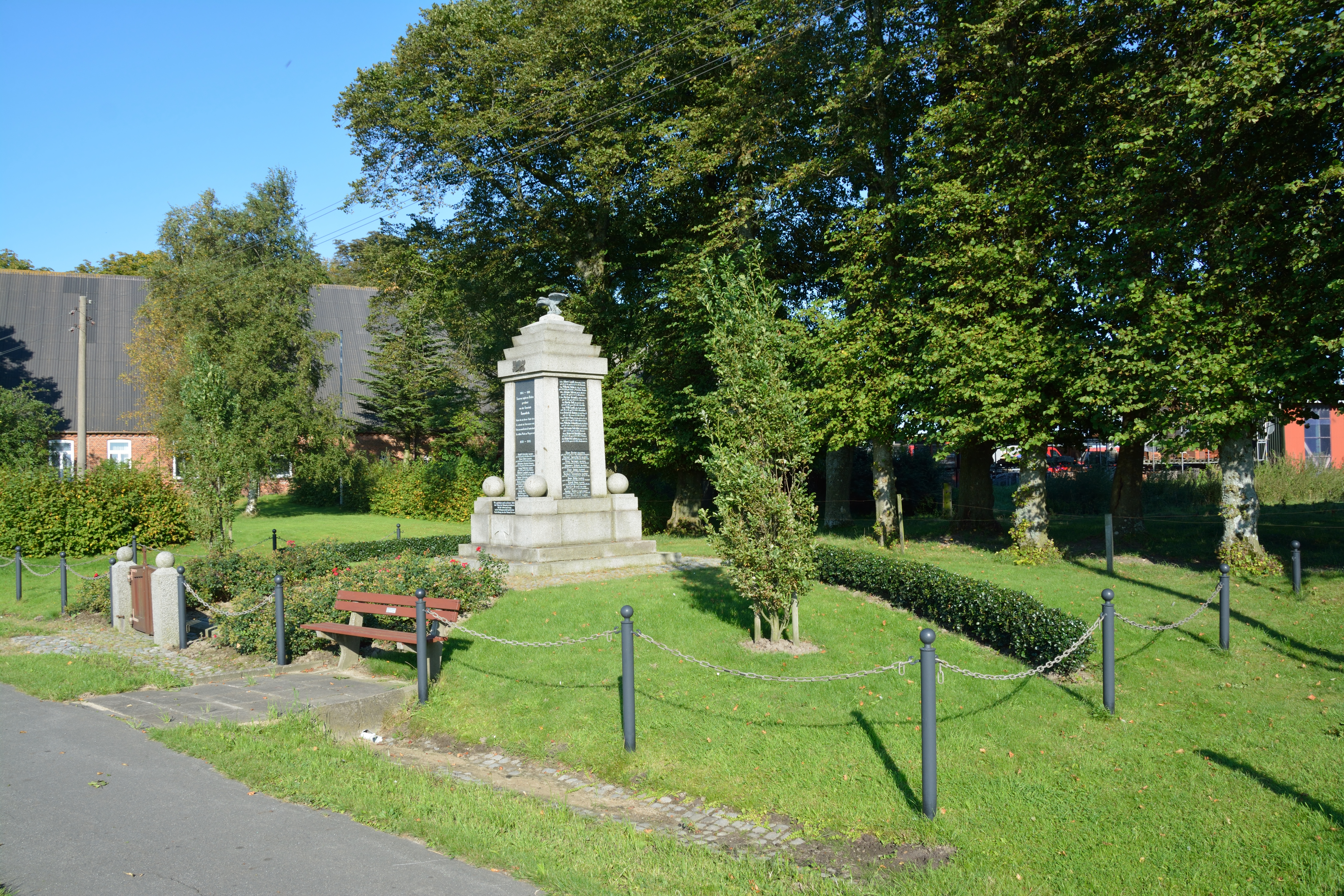 Dammfleth, memorial along the highway 136